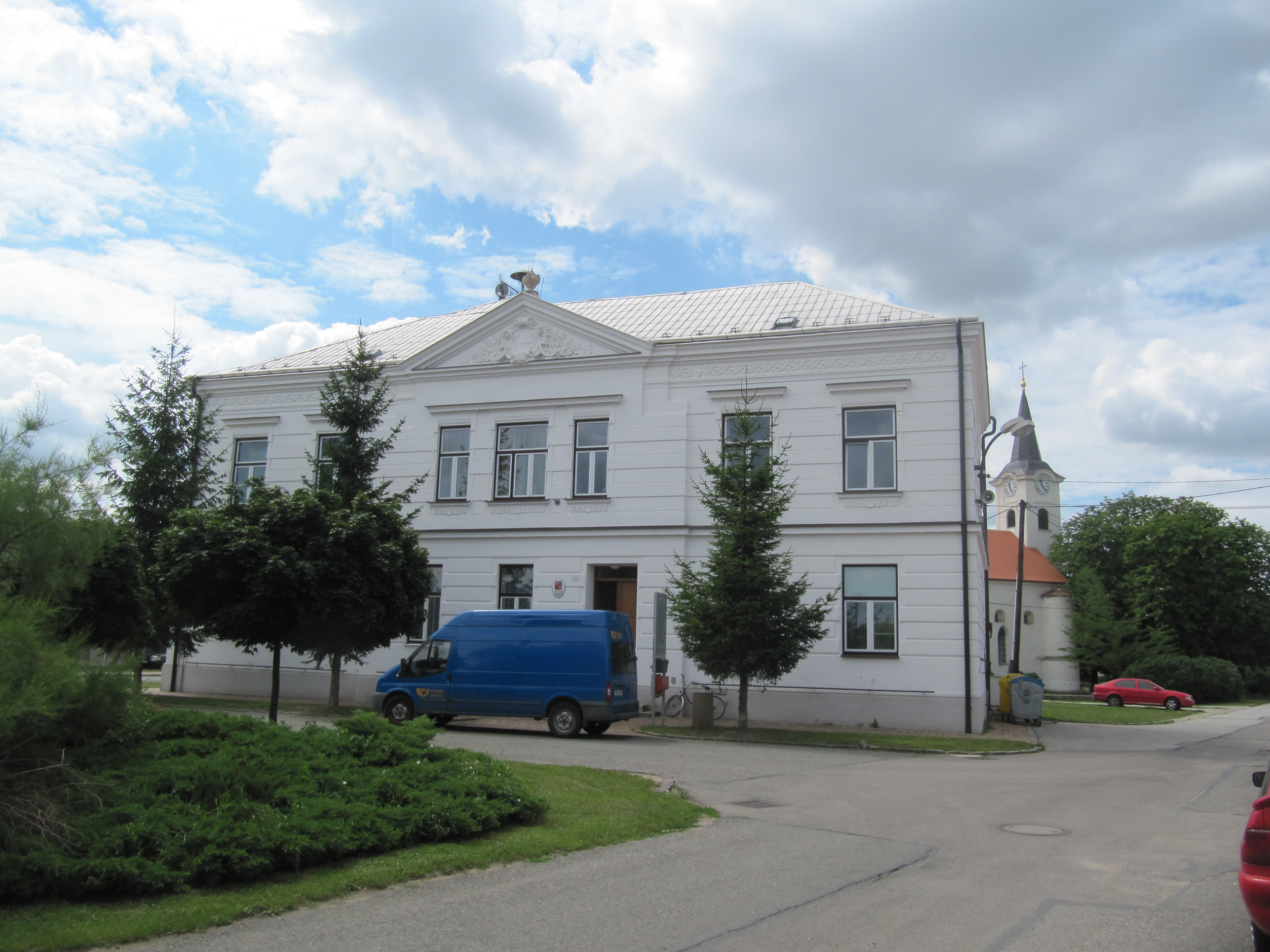 Novosedly in Břeclav District, Czech Republic. Municipal office.